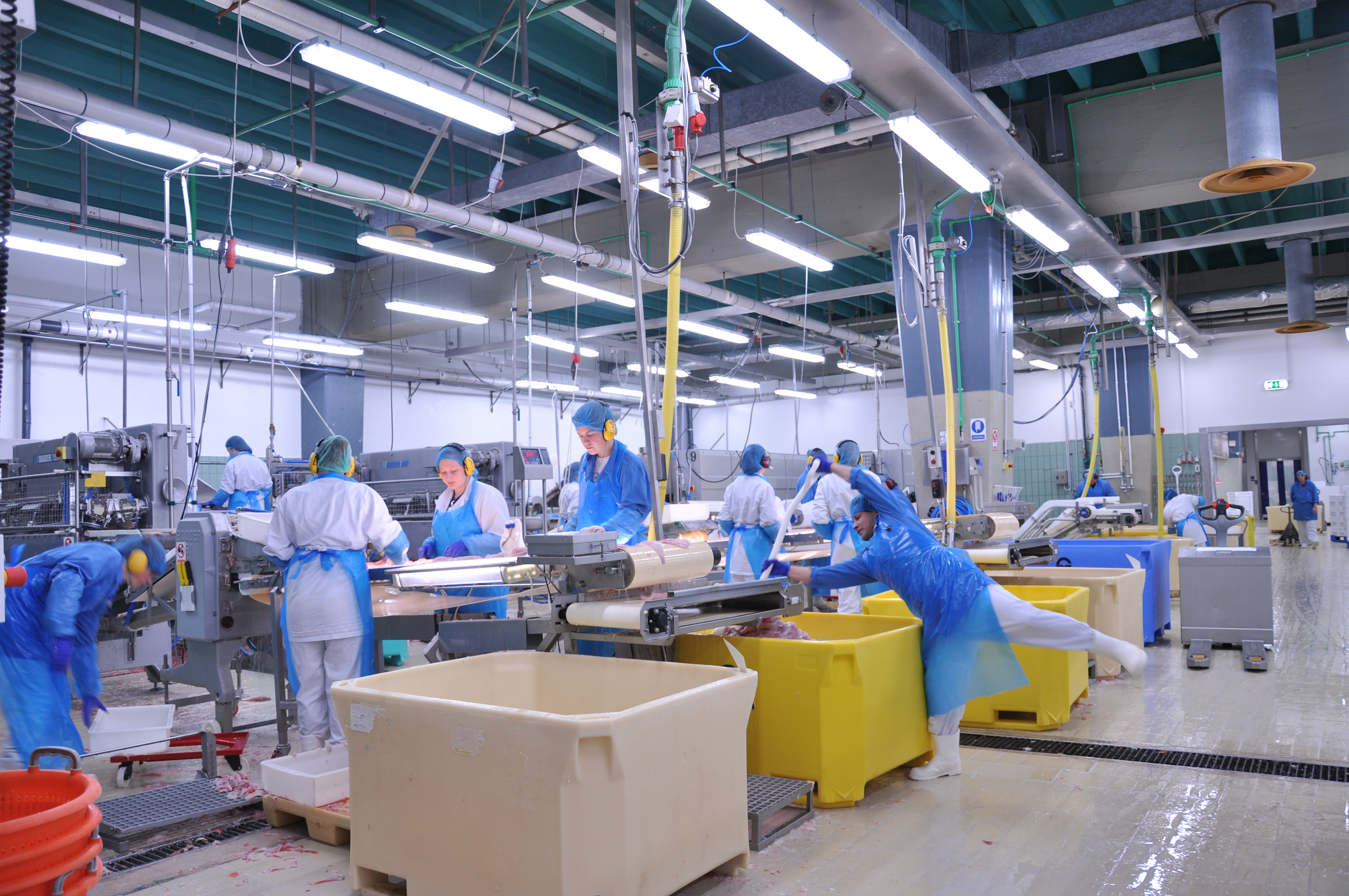 Conveyor belt fish processing in HB Grandi fish processing plant in Reykjavík, Iceland.